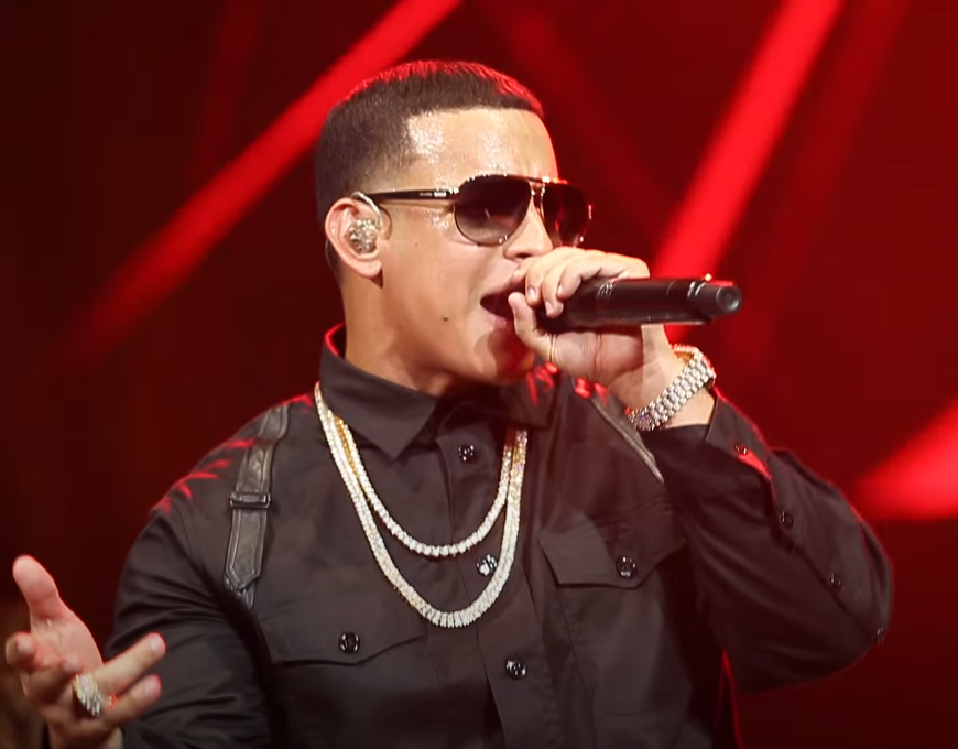 Daddy Yankee performing in Mexico